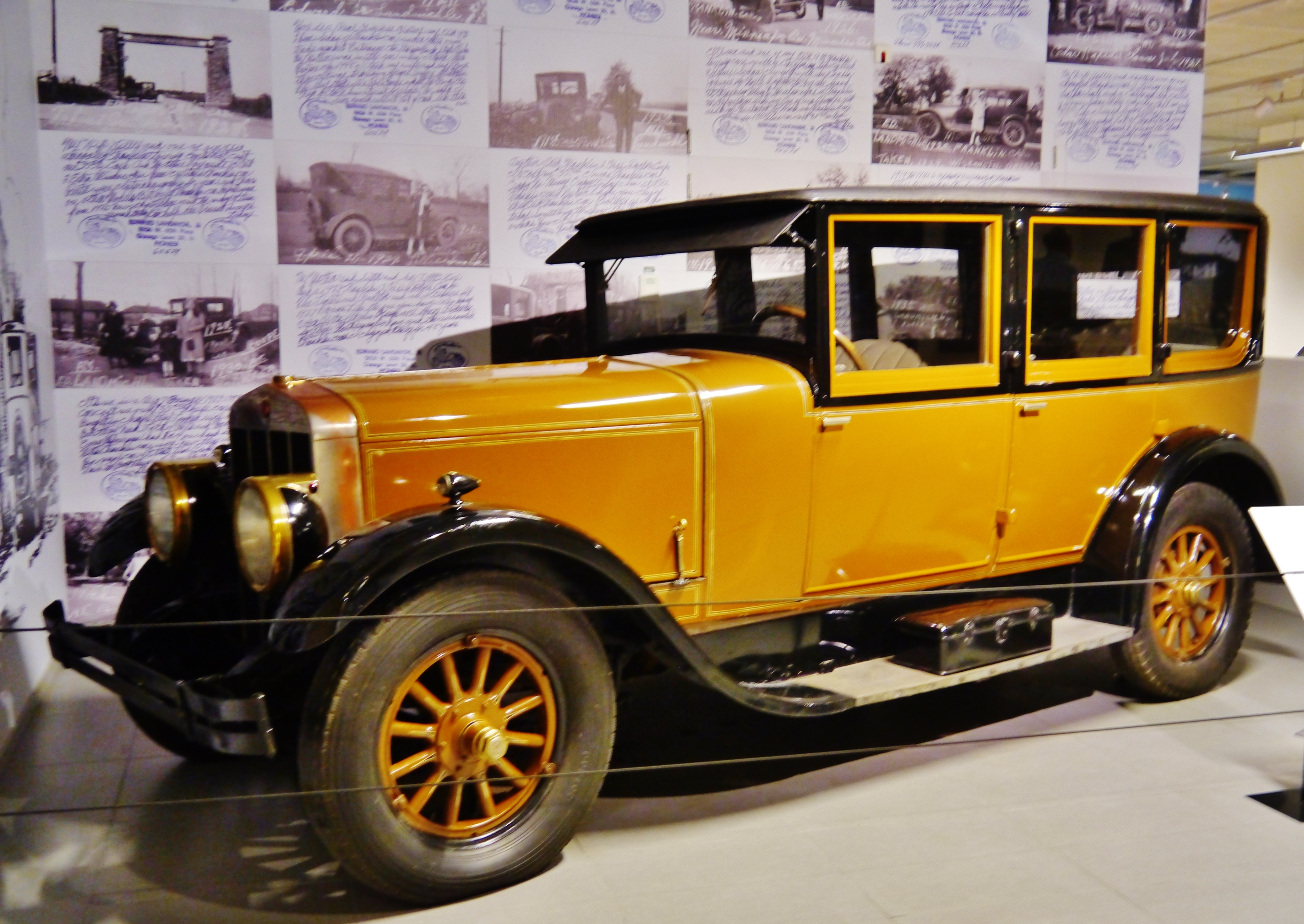 National Automobile Museum/Louwman Museum, The Hague, Province of South Holland, Netherlands